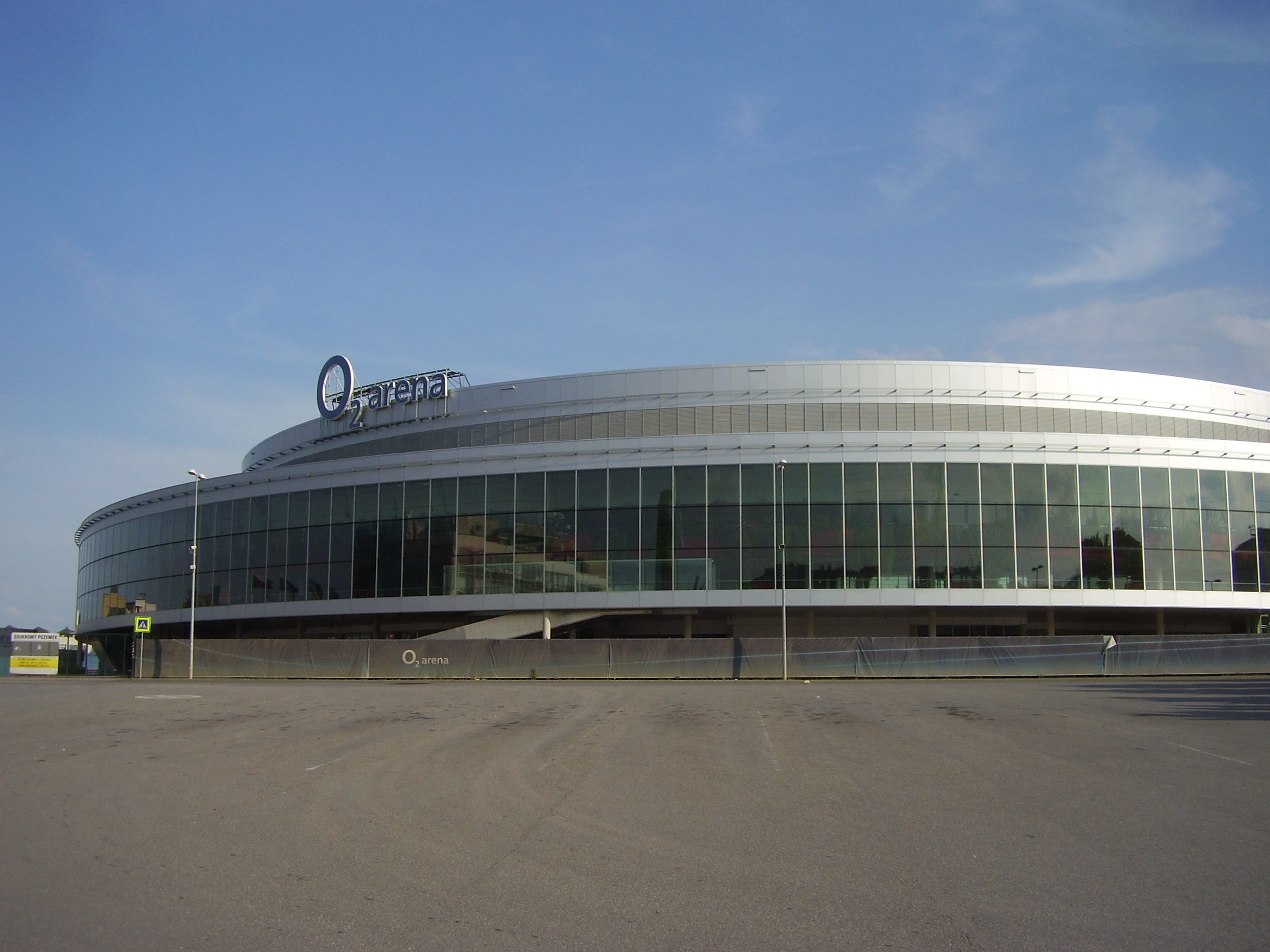 O2 Arena in Prague near Českomoravská